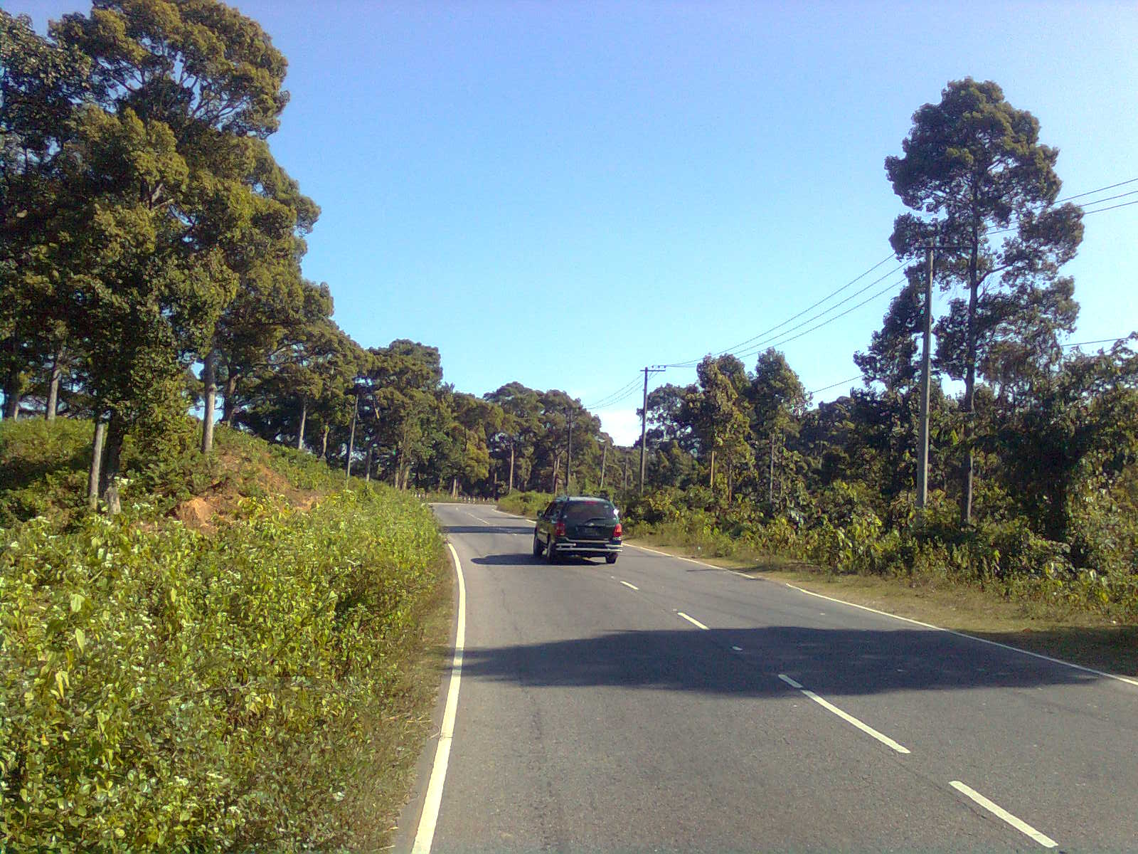 road towards cox's bazar through baniachora chakaria